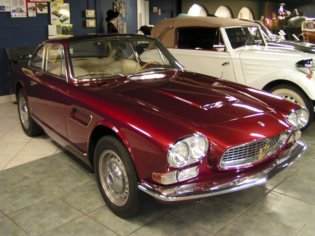 1967 Maserati Sebring Series II at the Tampa Bay Auto Museum